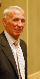 Paddy Crerand in Galway 2011